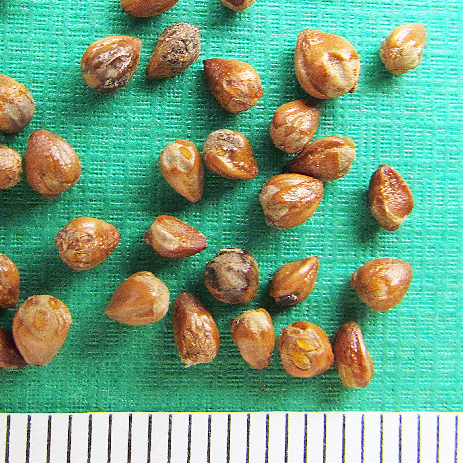 Juniperus virginiana seeds